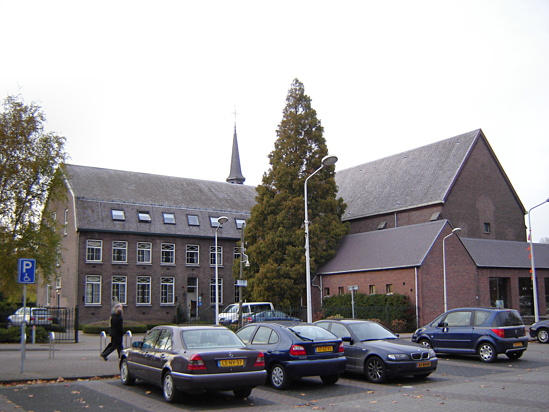 Roman catholic church of Saint Anthony of Padua in Sluiskil. Sluiskil, Terneuzen, Zeeland, the Netherlands